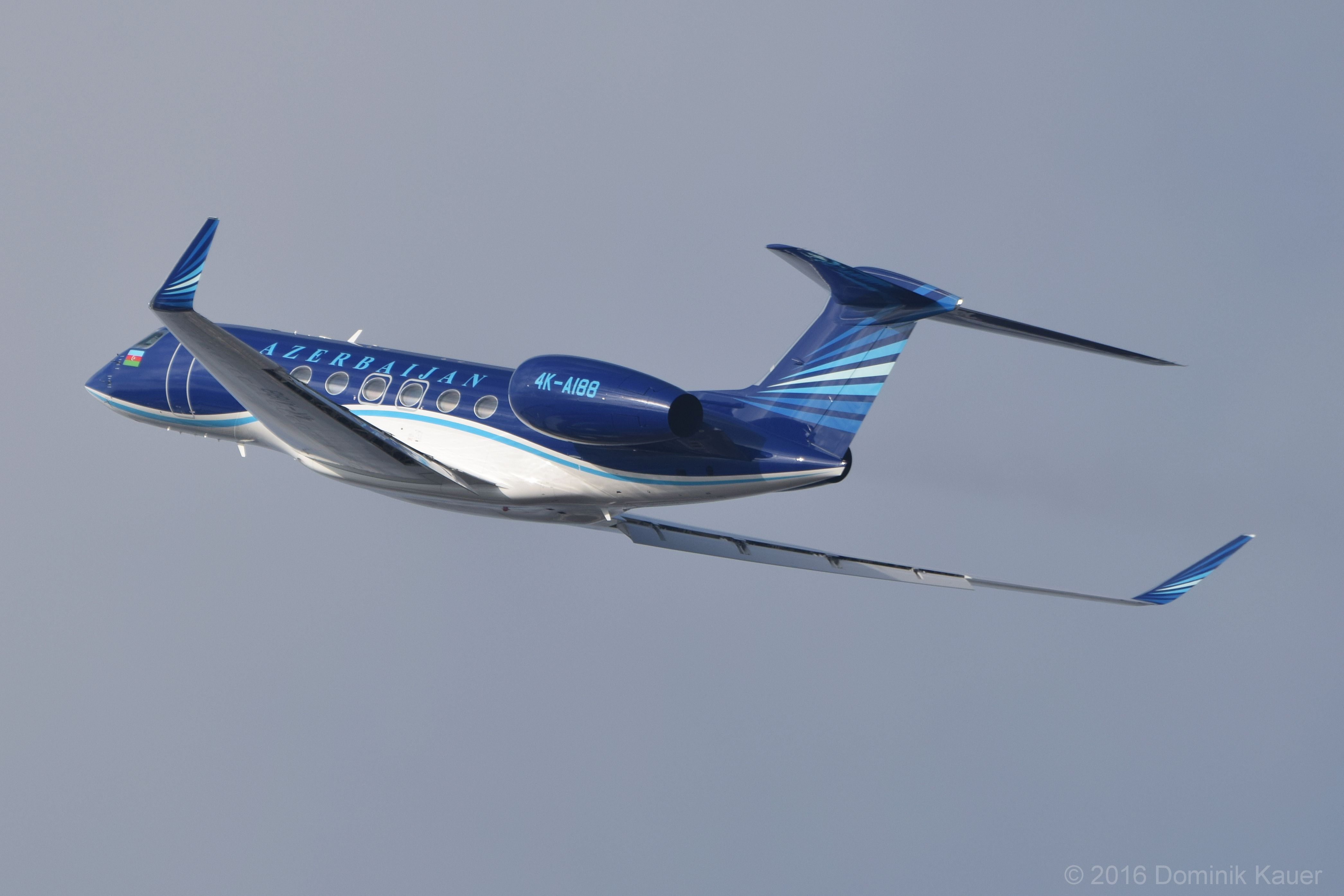 Silkway Business Jets Gulfstream Aerospace GVI (G650) leaving Zurich after the WEF 2016.